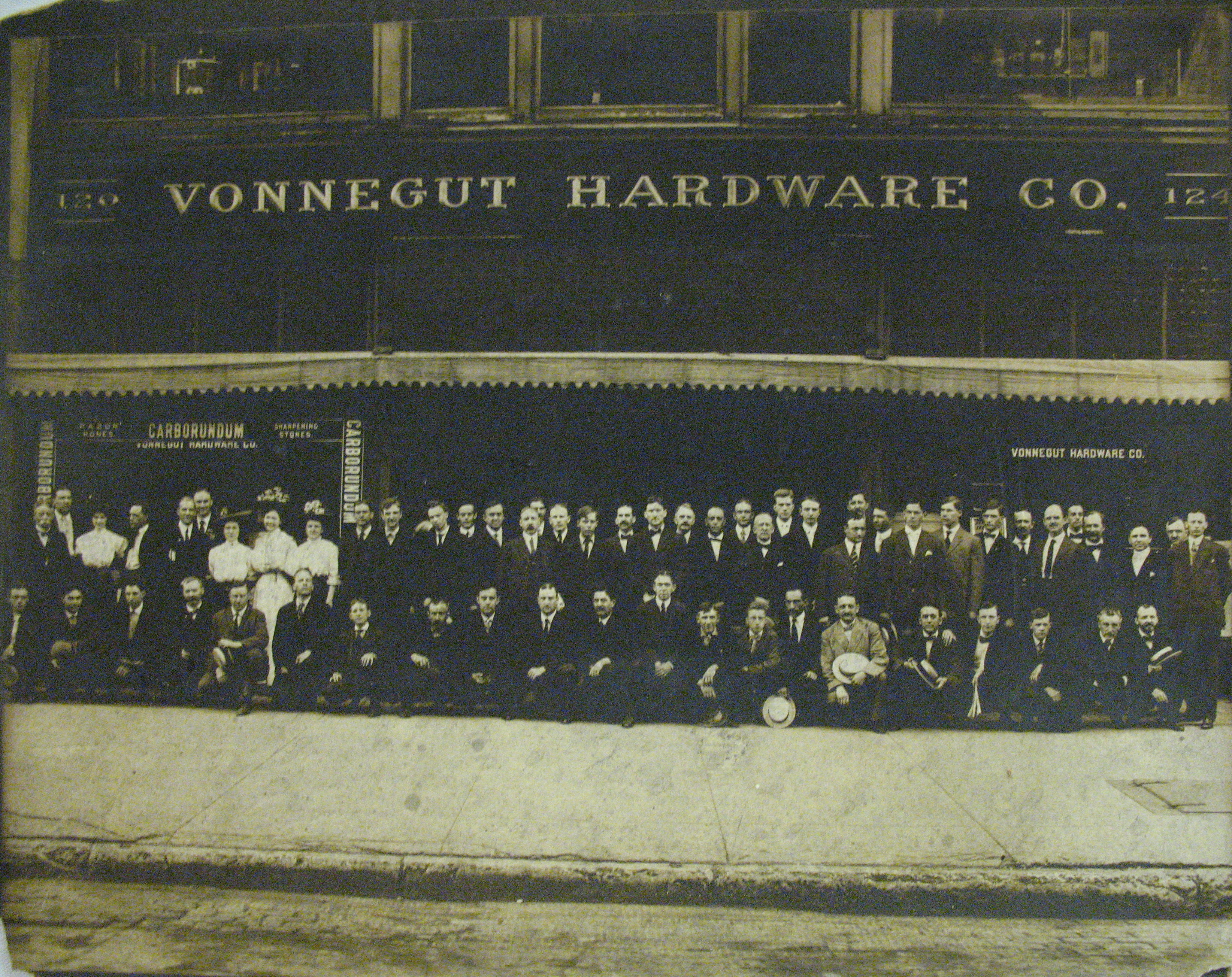 Employee gathering - flagship store at 120 W Washington Street, Indianapolis, IN - circa 1915, R.E. Kremp top row, 9th from right